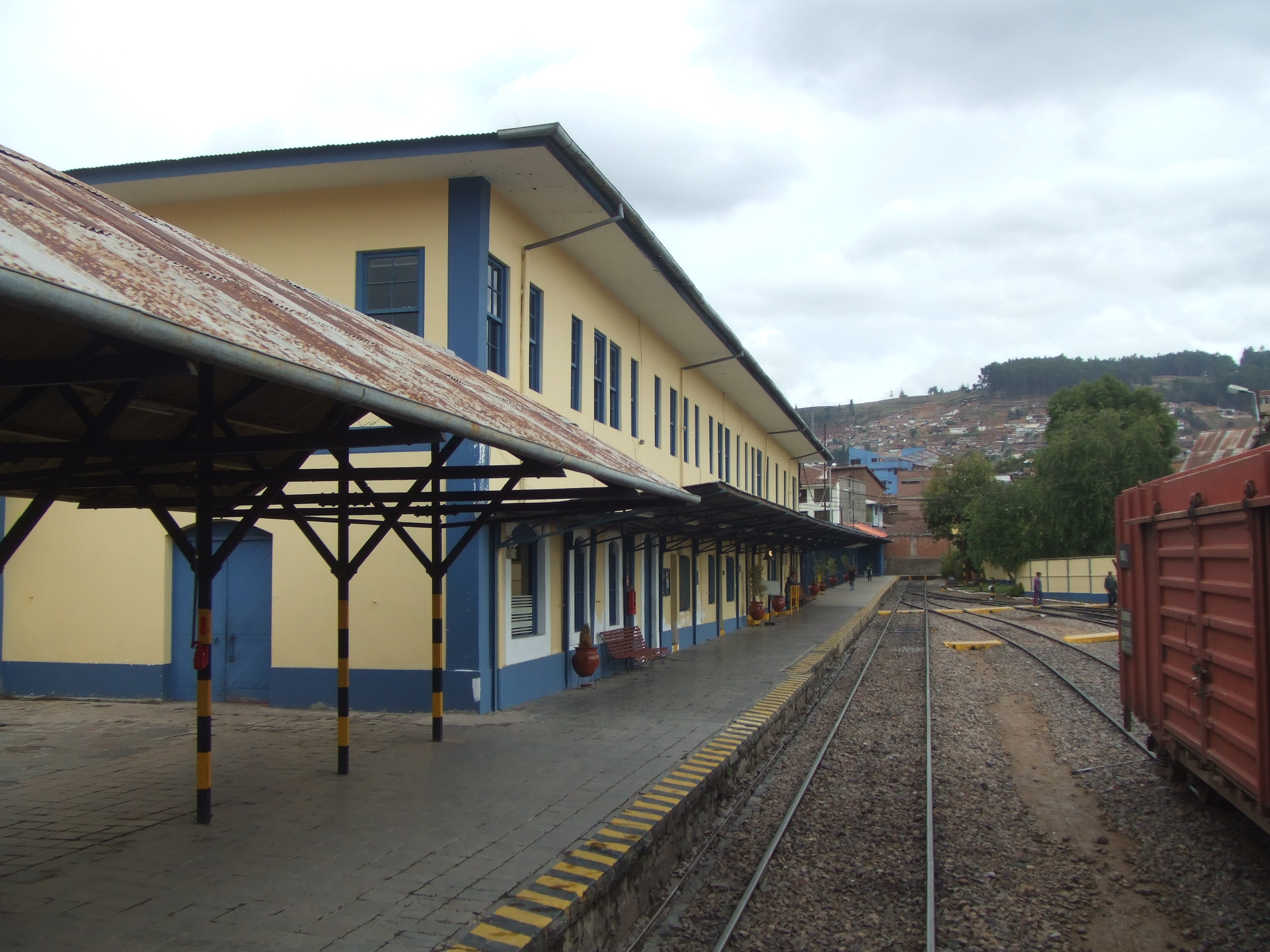 Cuzco (San Pedro) Station, bult by the Ferro Carril Cuzco a Santa Ana (FCCSA)10/07.